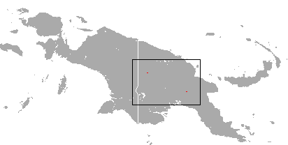 Bulmer's Fruit Bat (Aproteles bulmerae) range